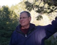 J. Baird Callicott, distinguished professor of Philosophy at the University of North Texas, Denton